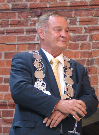 Bo Bladholm, first deputy chairman of the Stockholm City Council (kommunfullmäktige), at the Writers' and Literary Translators' International Conference (Stockholm, 30 June 2008).